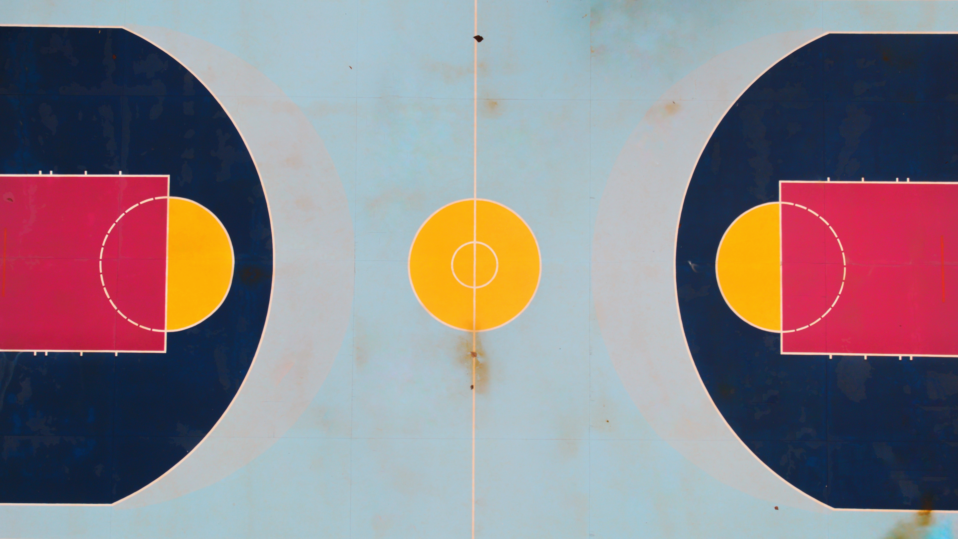 Aerial shot of basketball court near MIT Campus Store.